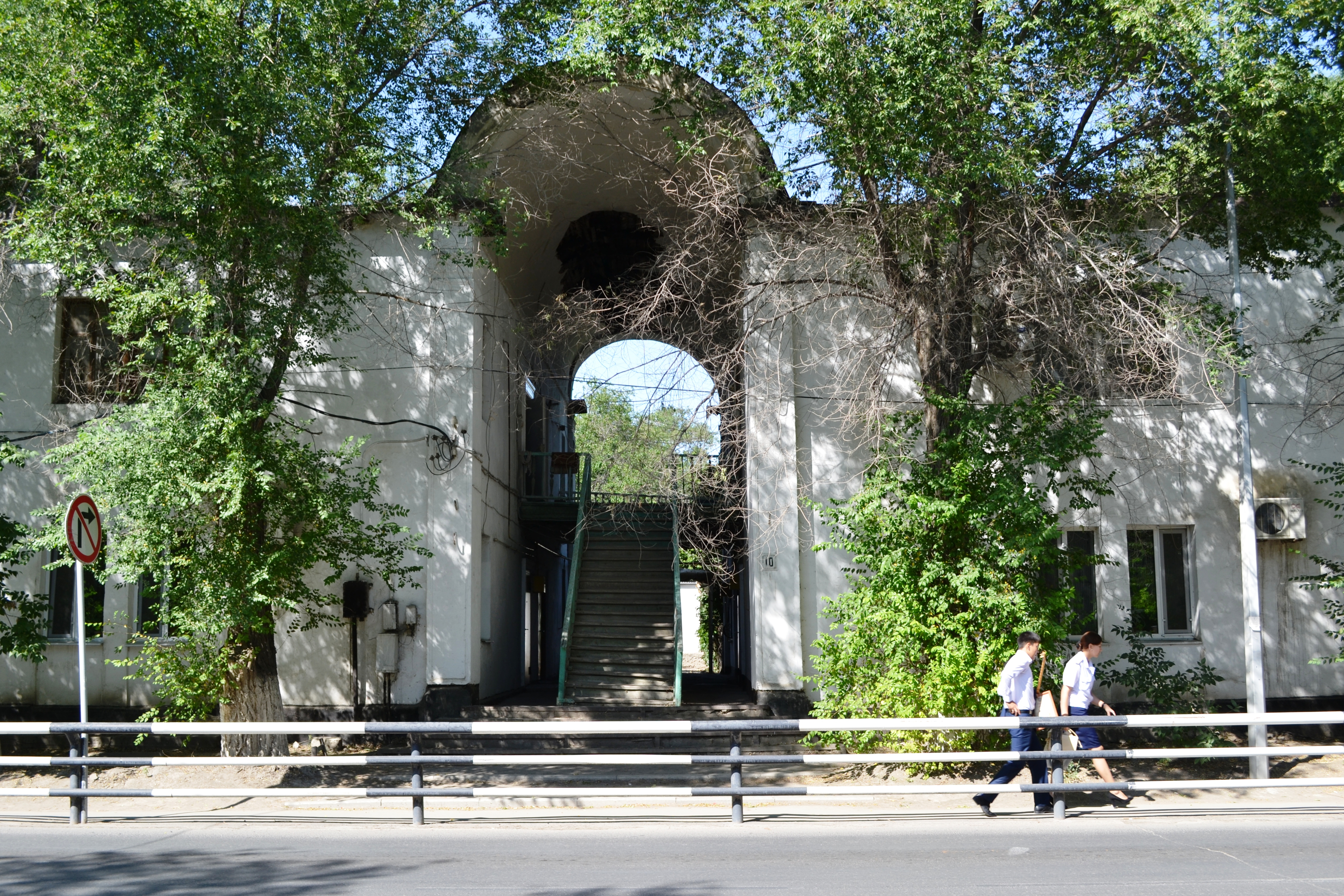 Zhilgorodok Atyrau